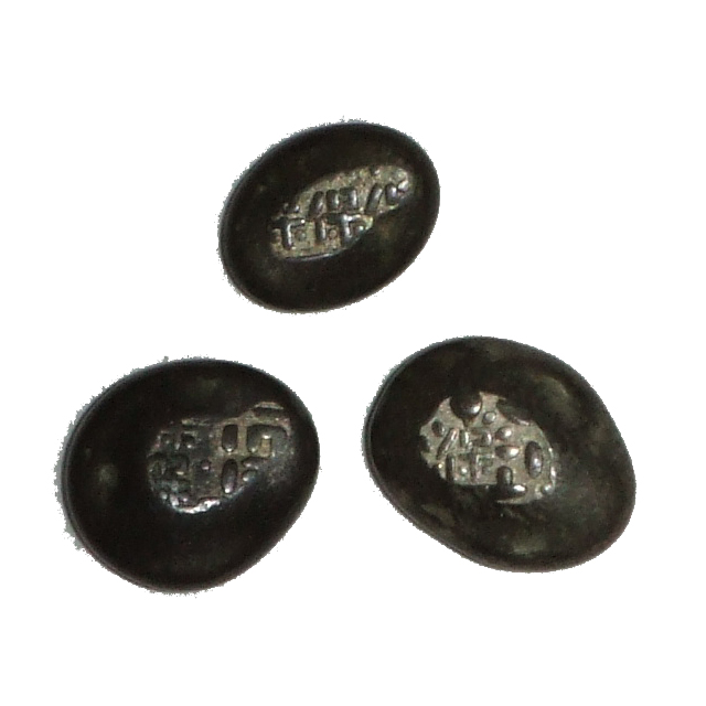 Hozi-mameitagin(silver beans)